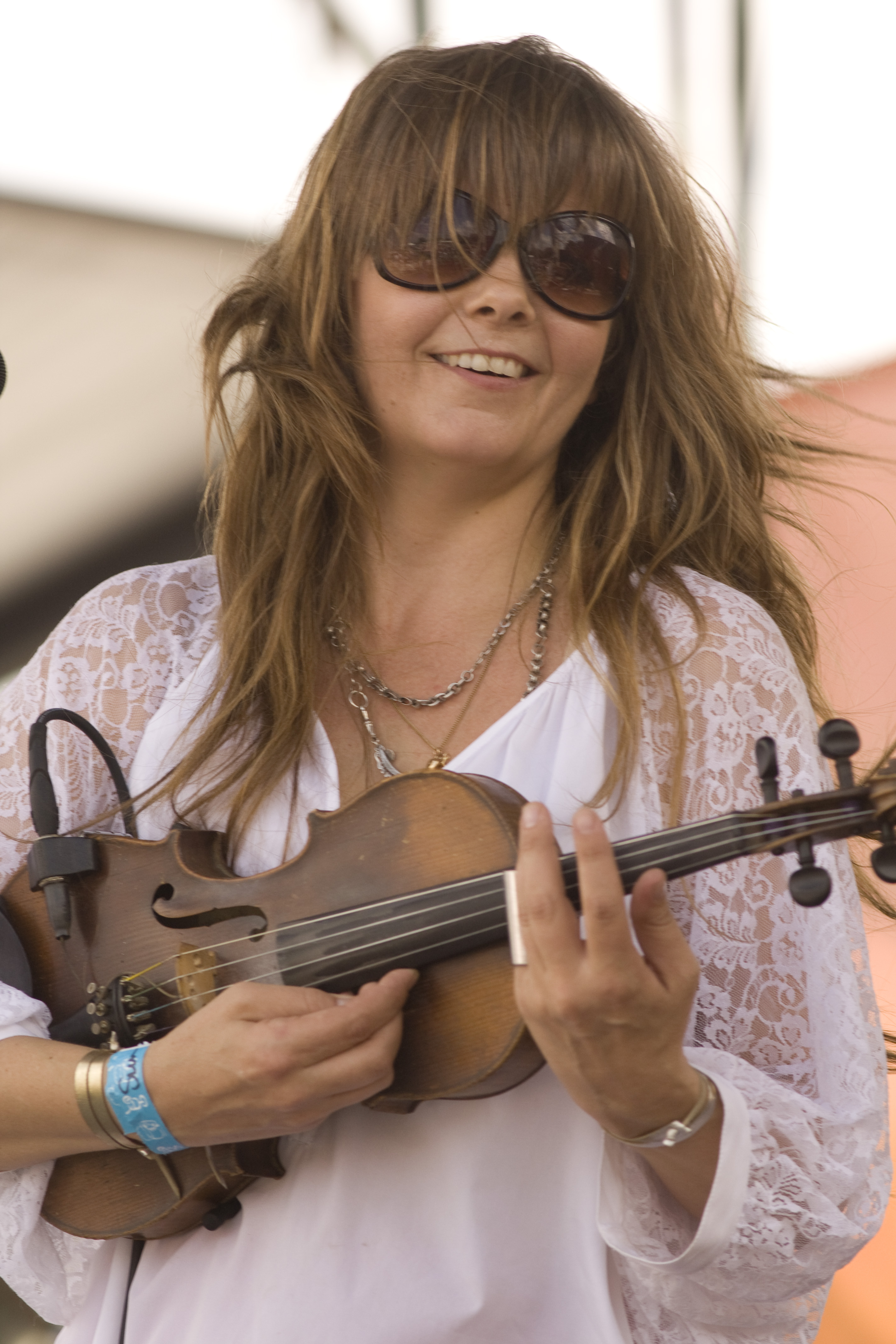 Theresa Andersson at French Quarter Fest, New Orleans